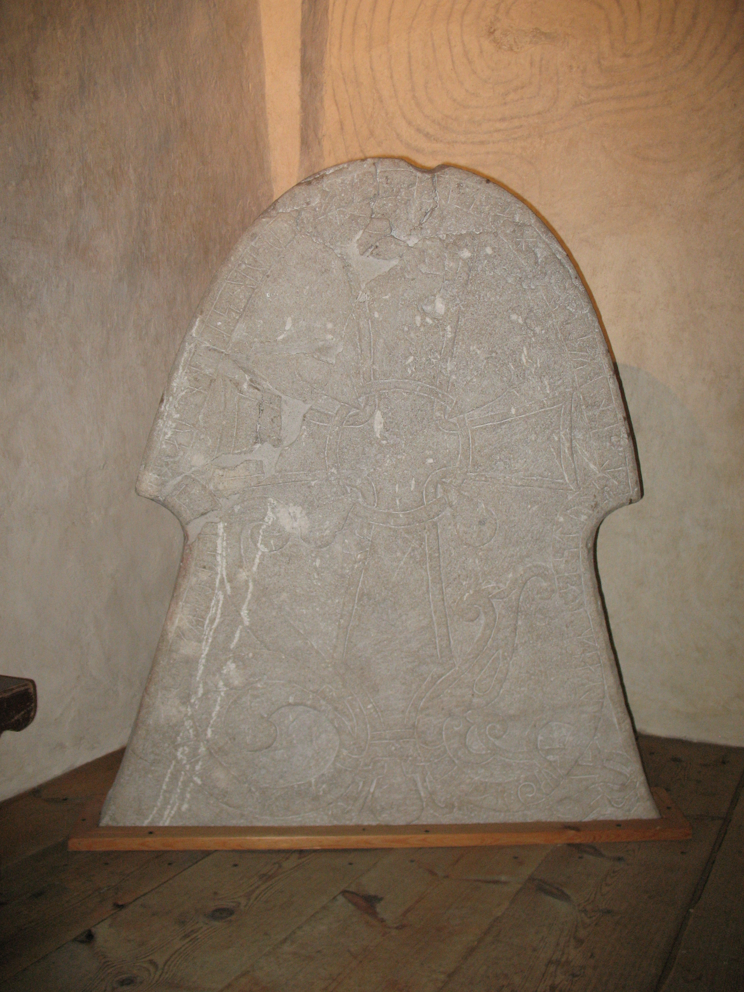 stone